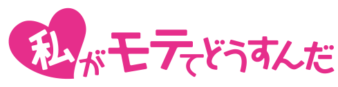 Kiss Him, Not Me logo